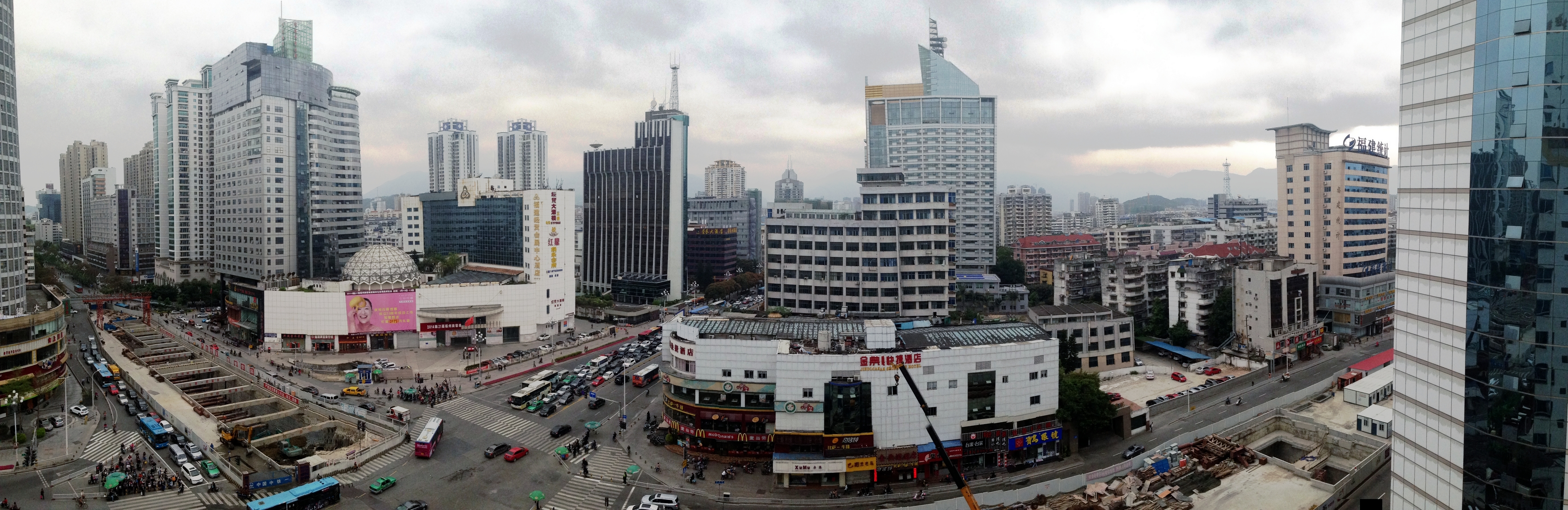 This is a road intersection in a busy CBD in Fuzhou, Fujian Province, China. The two roads that intersect are Wusi Road and Hualin Road. Subway lines can be seen under construction in the photo.